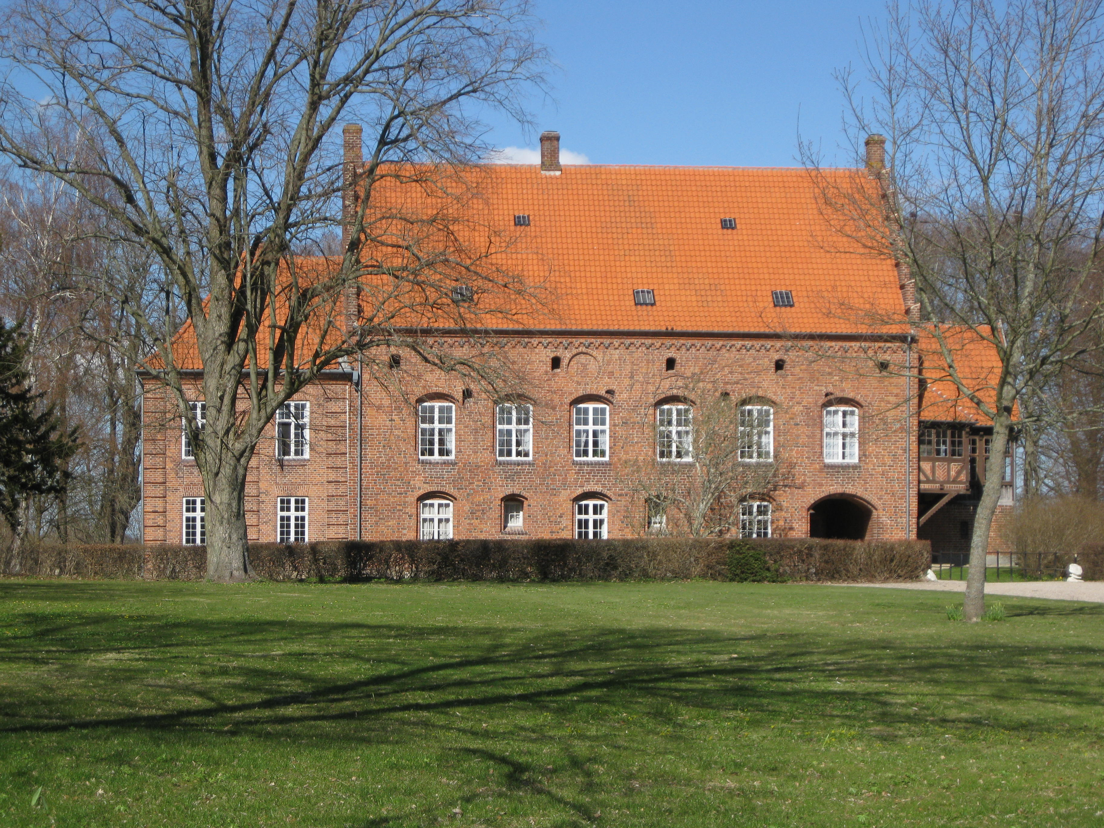 The estate "Vedbygaard" nearby the small town Ruds Vedby. The town is located in West Zealand, Denmark.